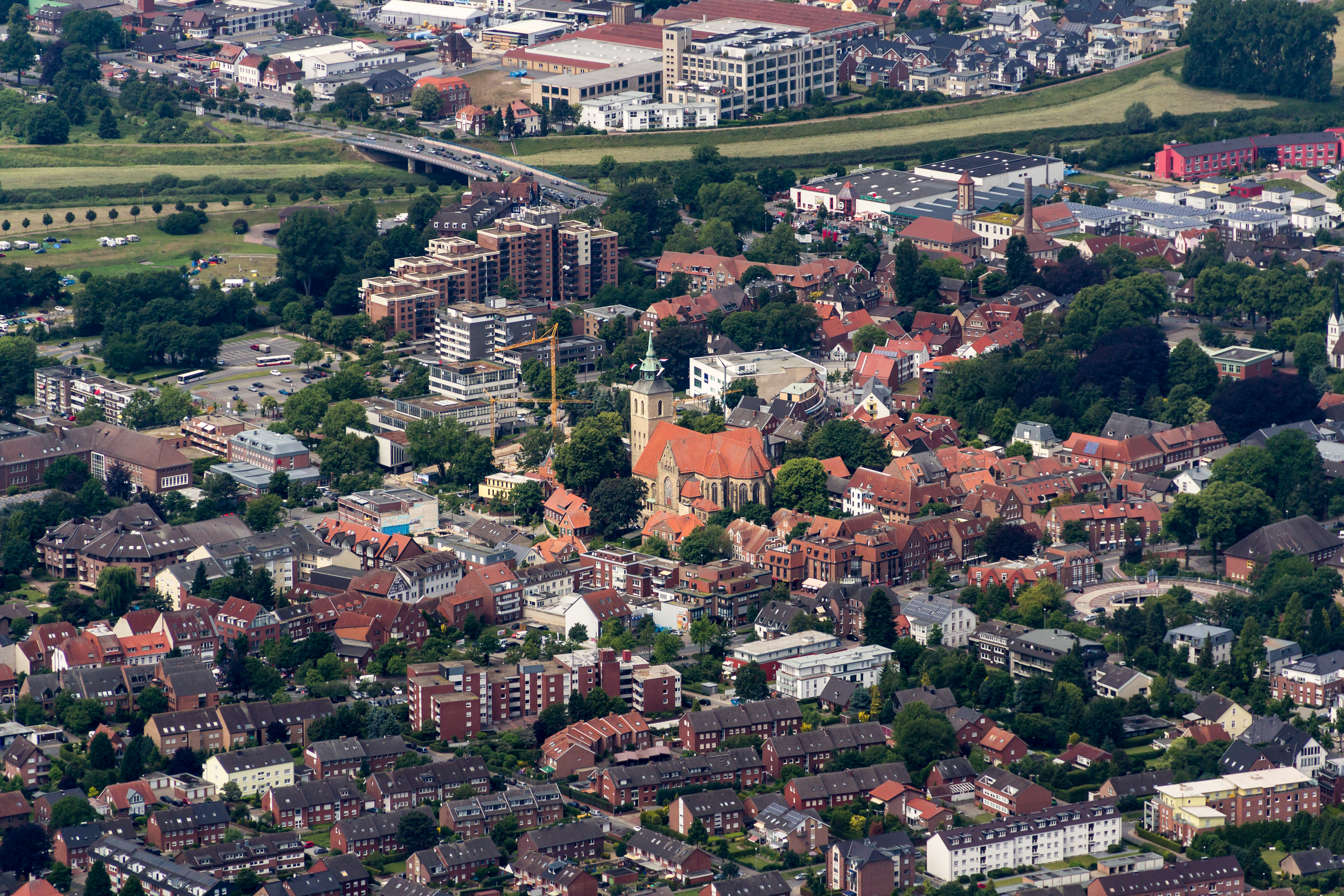 St. Martinus Church, Greven, North Rhine-Westphalia, Germany